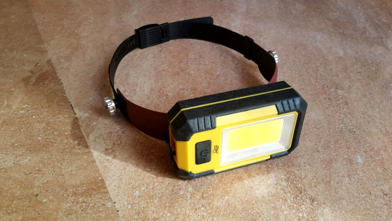 500 Lumen LED headlamp with 4000mAh rechargeable li-ion battery